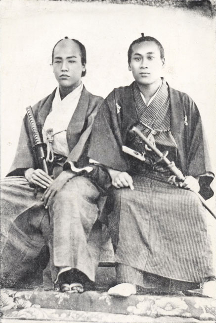 Photograph of Obata Tokujirō (1842-1905) and Matsuyama Tōan (1839-1909) probably taken in Edo (Japan) during the late 1860s. Both were leading modernizers in Meiji-Japan.